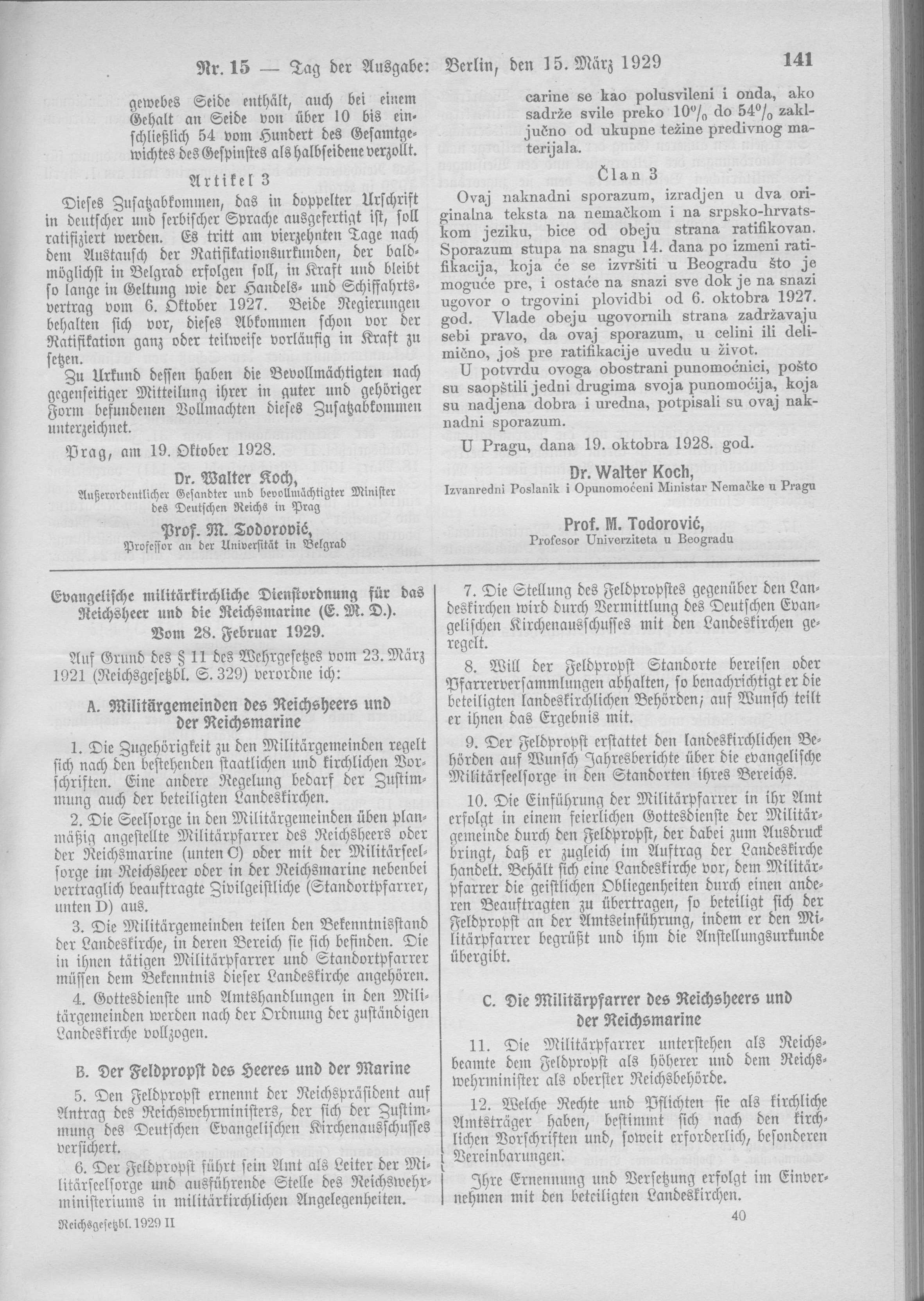 Scan from the Imperial Law Gazette of Germany, 1929, part 2